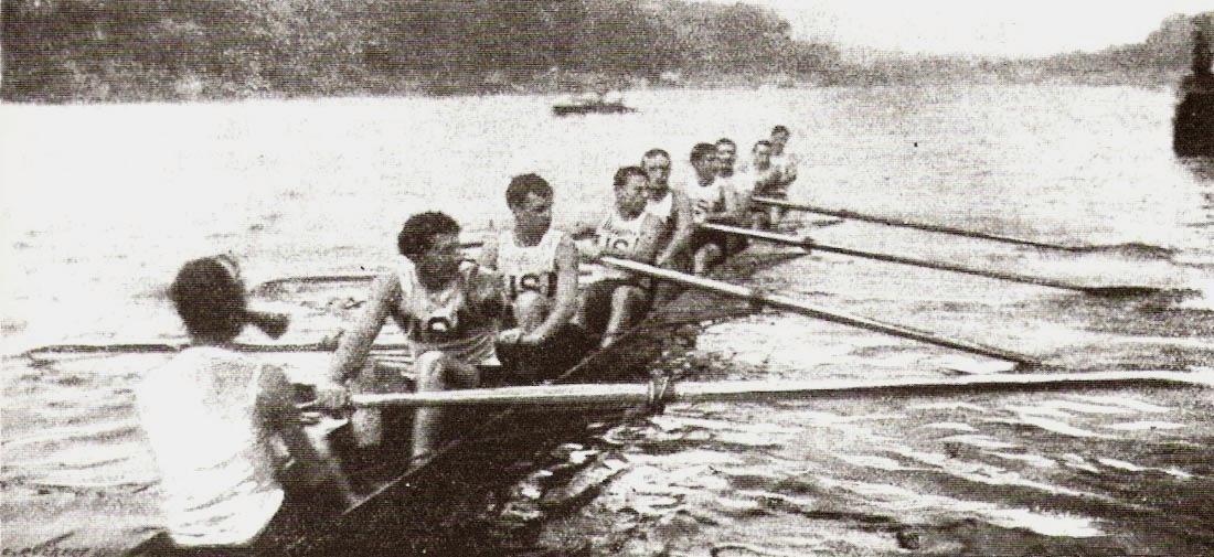 Men’s eight rowing team at the 1900 Olympic Games photography, reproduction, no restrictions on use